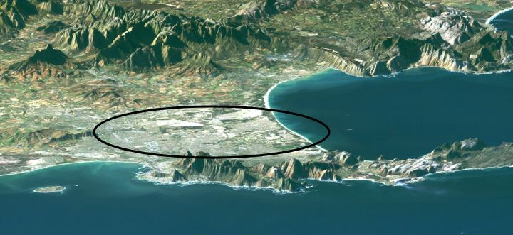 Extremely rough (wateva) approximation of the Cape Flats area of the Cape Town Metropole--Wiki user adaptation of public domain (Landsat/NASA) image from WikiCommons Image:Satellite image of Cape peninsula.jpg. Circle drawn imprecisely.